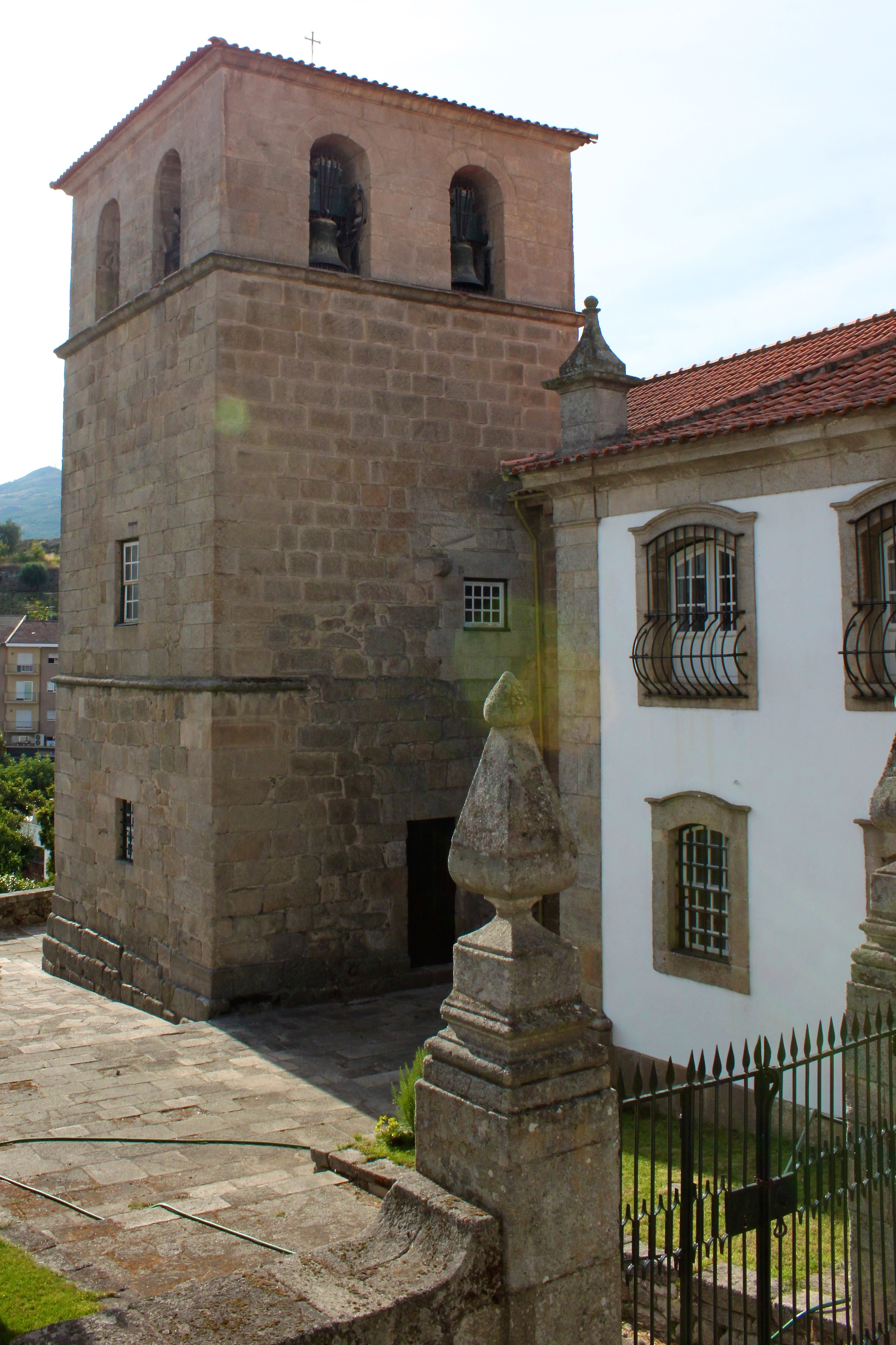 This file was uploaded for Wiki Loves Monuments in Portugal with the unique identifier 70429.